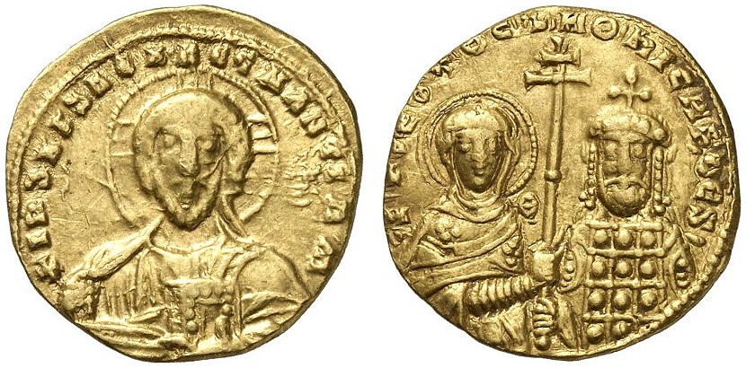 Tetarteron Nikephoros II. Phokas 963 - 969 4,10g gepraegt 965 - 969